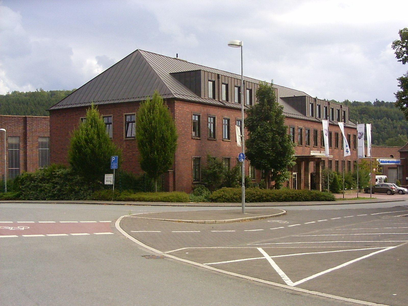 Wickeder Westfahlenstahl